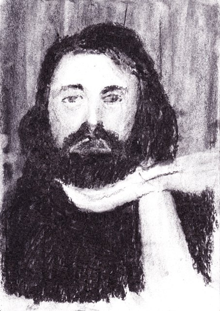 Charcoal on Paper by Amitabh Mitra